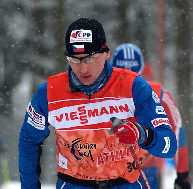 Lukáš Bauer at the Tour de Ski 2010 in Oberhof